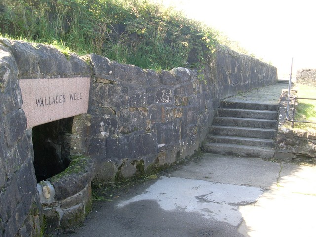 Wallace's Well Believed to be the last place William Wallace enjoyed a drink as a free man. His place of capture is marked by a monument just a few hundred yards to the west of here.